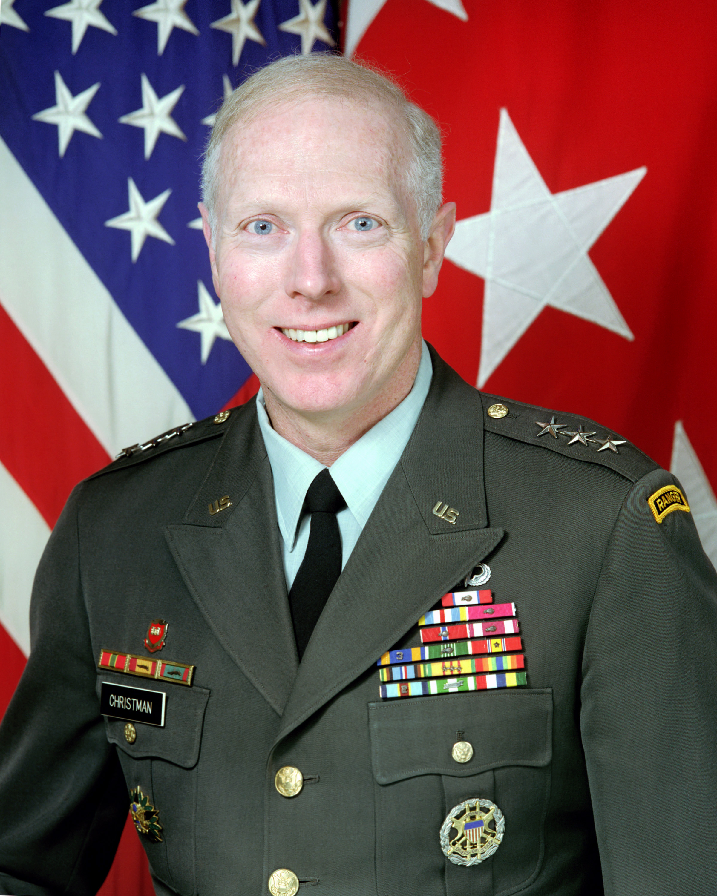 Lieutenant General Daniel William Christman, Superintendent of the United States Military Academy